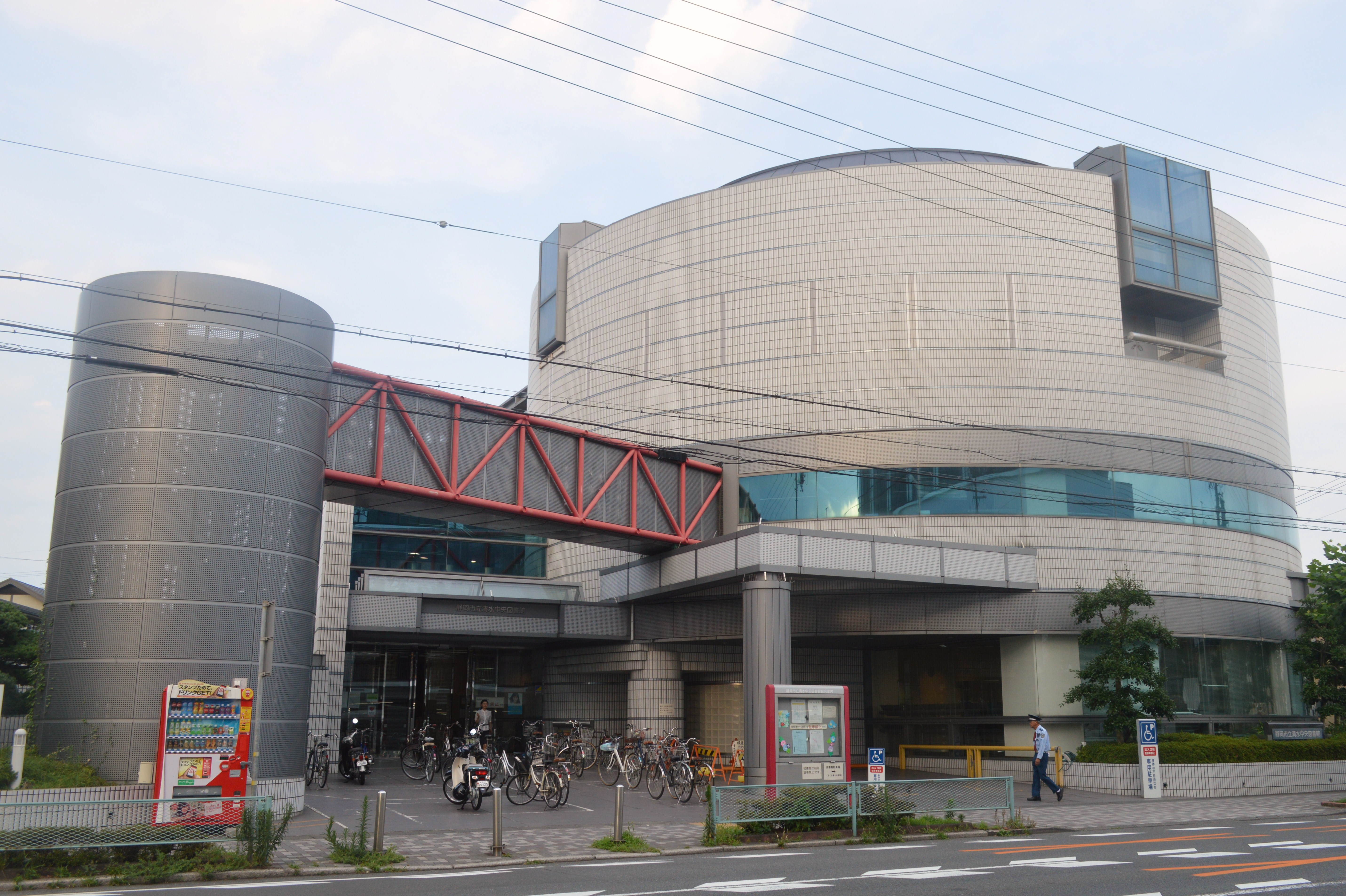 Shizuoka Municipal Shimizu Central Library in Shizuoka Prefecture, Japan